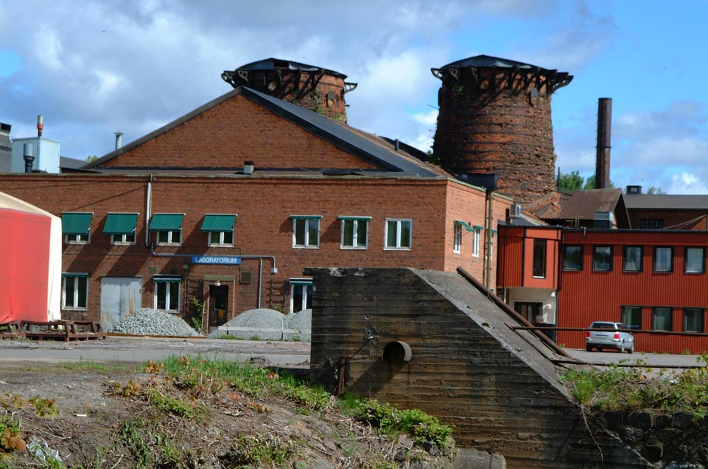 Blast furnace, Björneborg Steelworks 2004. Built 1872-72. Demolished 2008. Fotograf: Cucumber